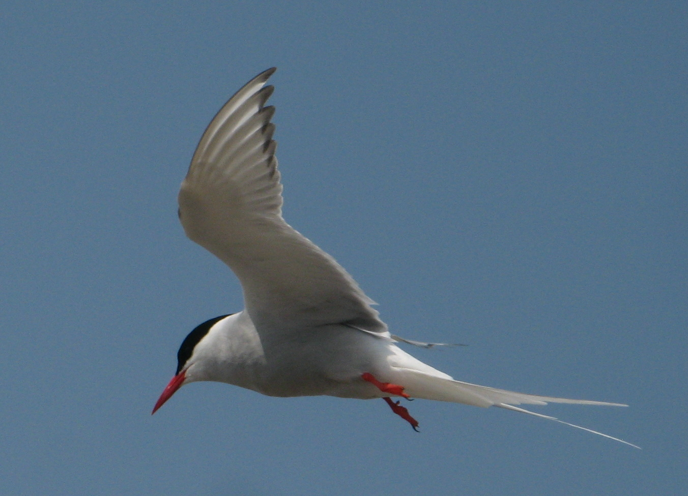 sterna paradisae at Eider river barrier